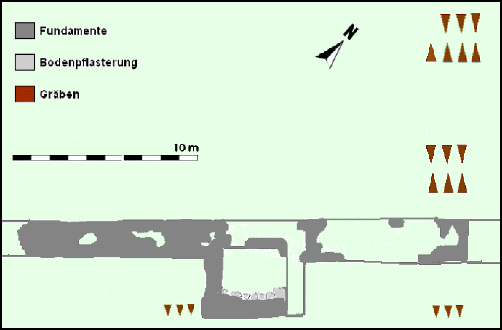 Befundskizze des NW-Zwischenturms des römischen Kastells von Stanwix (Uxelodunum), Grabung von 1984.